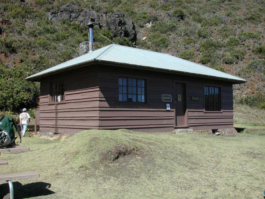 Kapalaoa Cabin, Haleakala National Park, Maui, Hawaii, USA